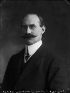 Portrait photograph of Melville Amadeus Henry Douglas Heddle de la Caillemotte de Massue, 9th Marquess de Ruvigny et Raineval taken in 1911